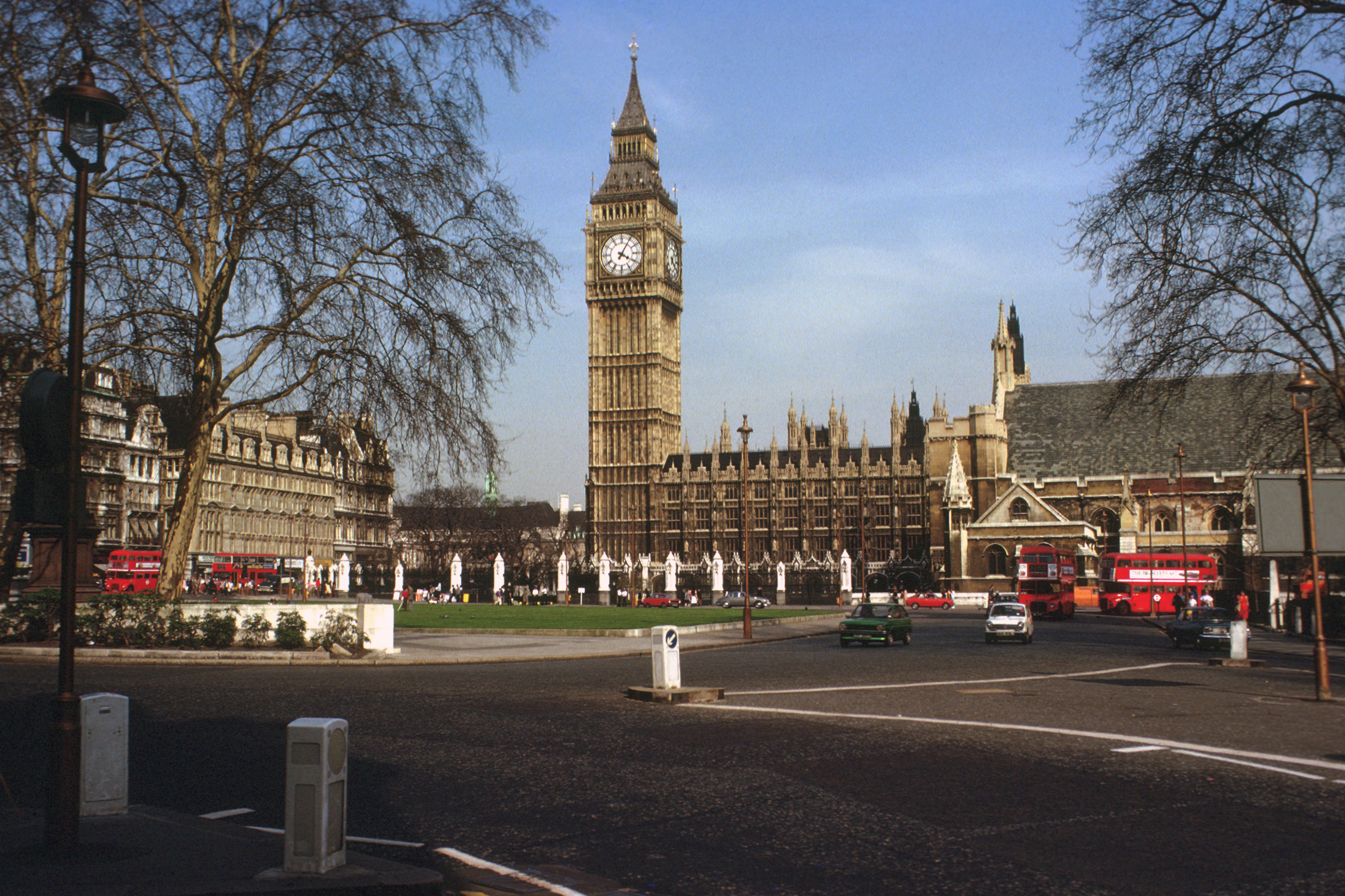 Parliament Square - London, 1980